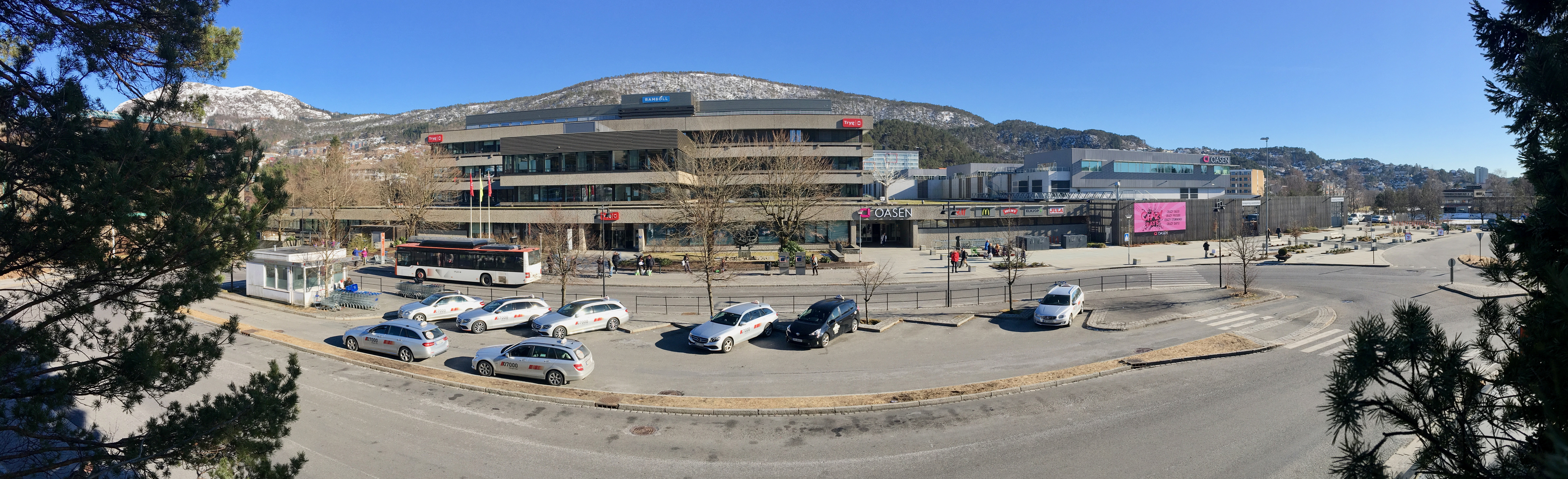 Oasen shopping mall (kjøpesenter, bydelssenter) in Folke Bernadottes vei, Fyllingsdalen, Bergen, Norway. Bergen Taxi, Skyss bus station, main entrance, etc. Distorted panorma 2018-03-17